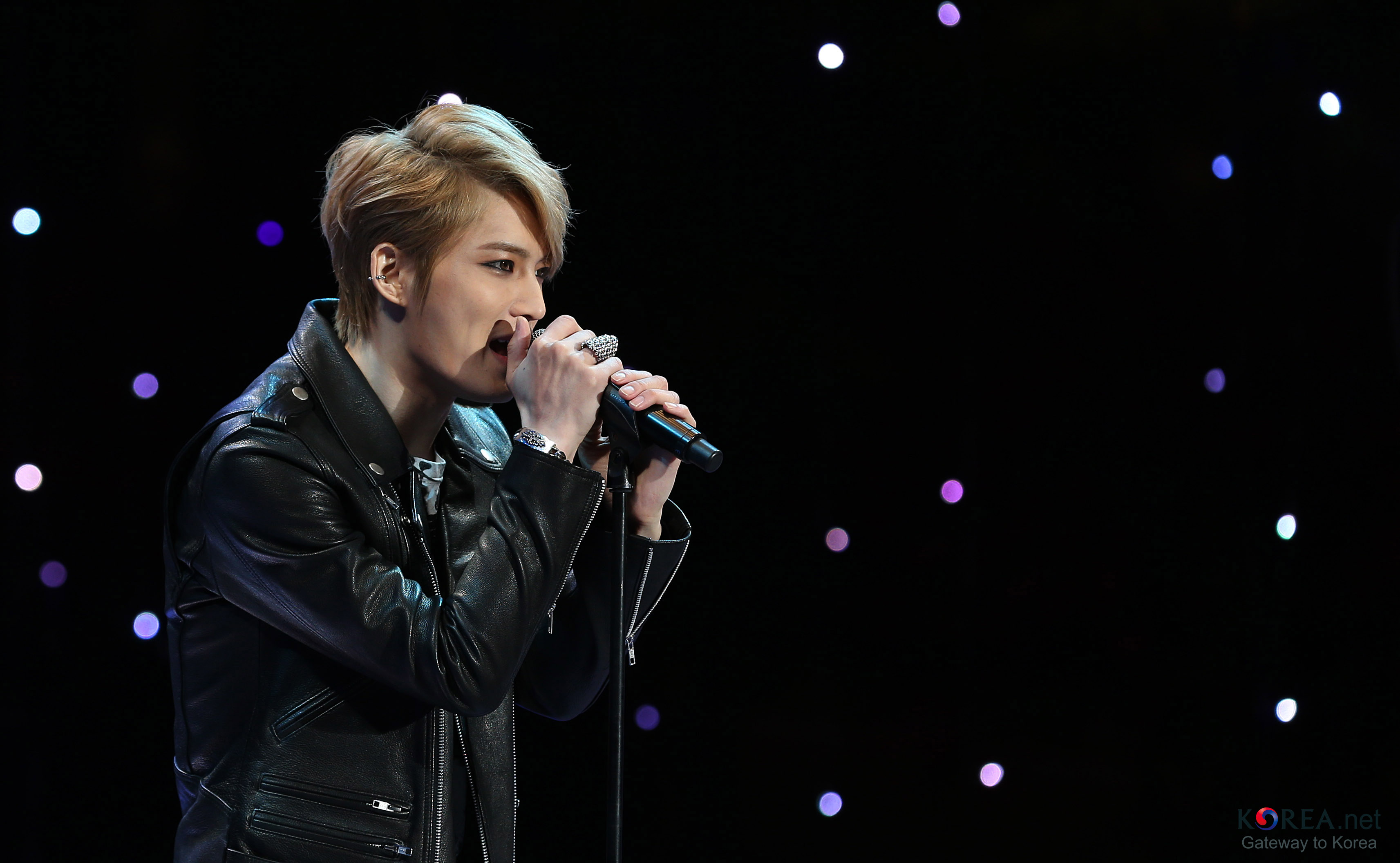 Ariang-themed concert at the Nokjiwon Garden of Cheong Wa Dae Singer JYJ Jaejoon performs during the concert. October 27, 2013 Nokjiwon Garden, Cheong Wa Dae, Seoul Related Article Cheong Wa Dae (English) Arirang echoes across Cheong Wa Dae -English- Arirang echoes across Cheong Wa Dae -Deutsch- Arirang erklingt im Cheong Wa Dae -español- Arirang resuena en Cheong Wa Dae -中文- 在青瓦台回荡起阿里郎的旋律 -Việt- Arirang được biểu diễn tại Nhà Xanh -日本語- 大統領府に響き渡った「アリラン」 -française- Arirang résonne à Cheong Wa Dae -русский – Чхонвадэ наполняется звуками Ариран -Arabic- أصوات أريرانج تتردد في البيت الأزرق Ministry of Culture, Sports and Tourism Korean Culture and Information Service ( Jeon Han 문화융성의 우리 맛, 우리 멋 아리랑공연 27일 청와대에서 열린 '문화융성 우리의 맛 우리의 멋 아리랑 공연'에서 그룹 JYJ의 재중이 공연을 펼치고 있다. 2013.10.27. 녹지원, 청와대 문화체육관광부 해외문화홍보원 코리아넷( 전한